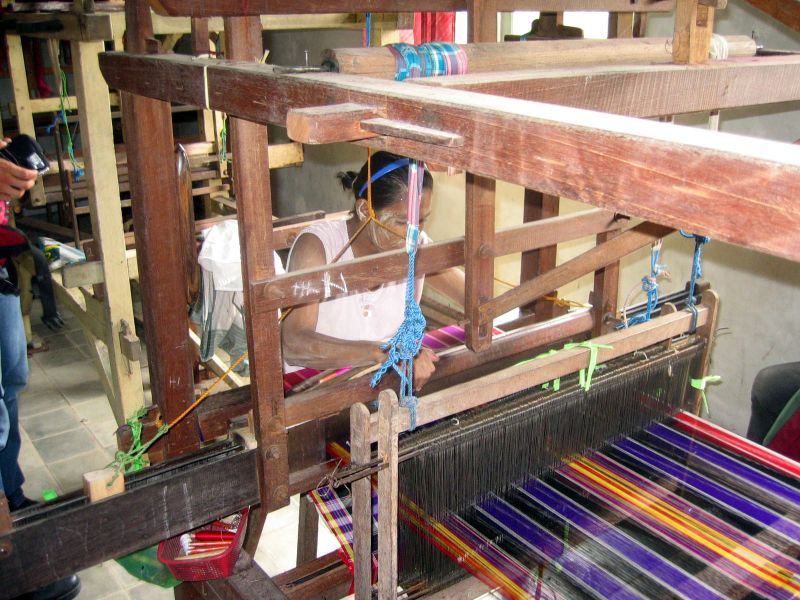 Weaving Samarinda Sarong